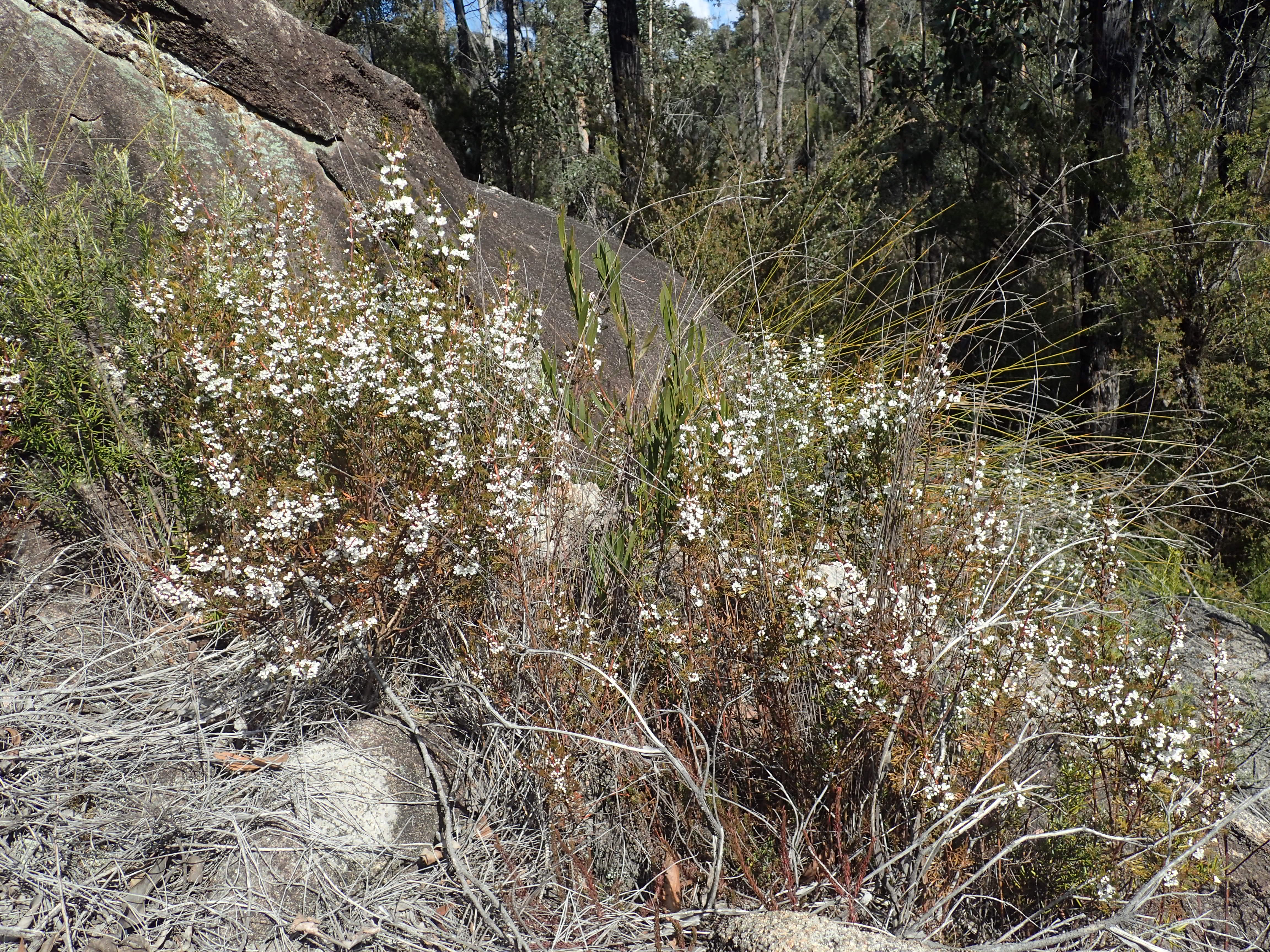 Boronia anethifolia growing near (and on) granite outcrops near the Dandahra Crags walking track in the Gibraltar Range National Park